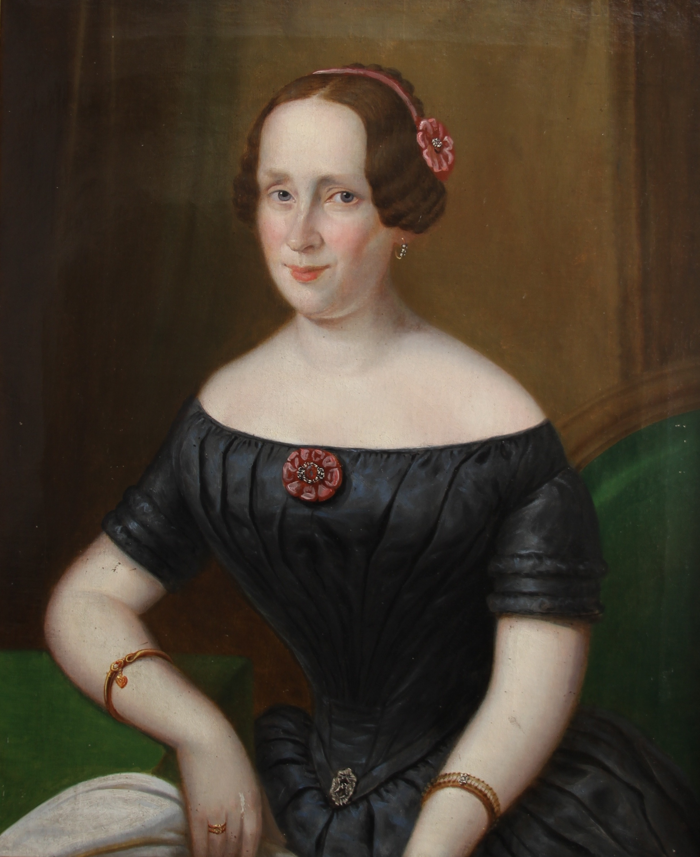 Peter Michal Bohúň (29 September 1822, Veličná - 20 May 1879, Bielsko-Biała) was a Slovak painter, primarily of portraits